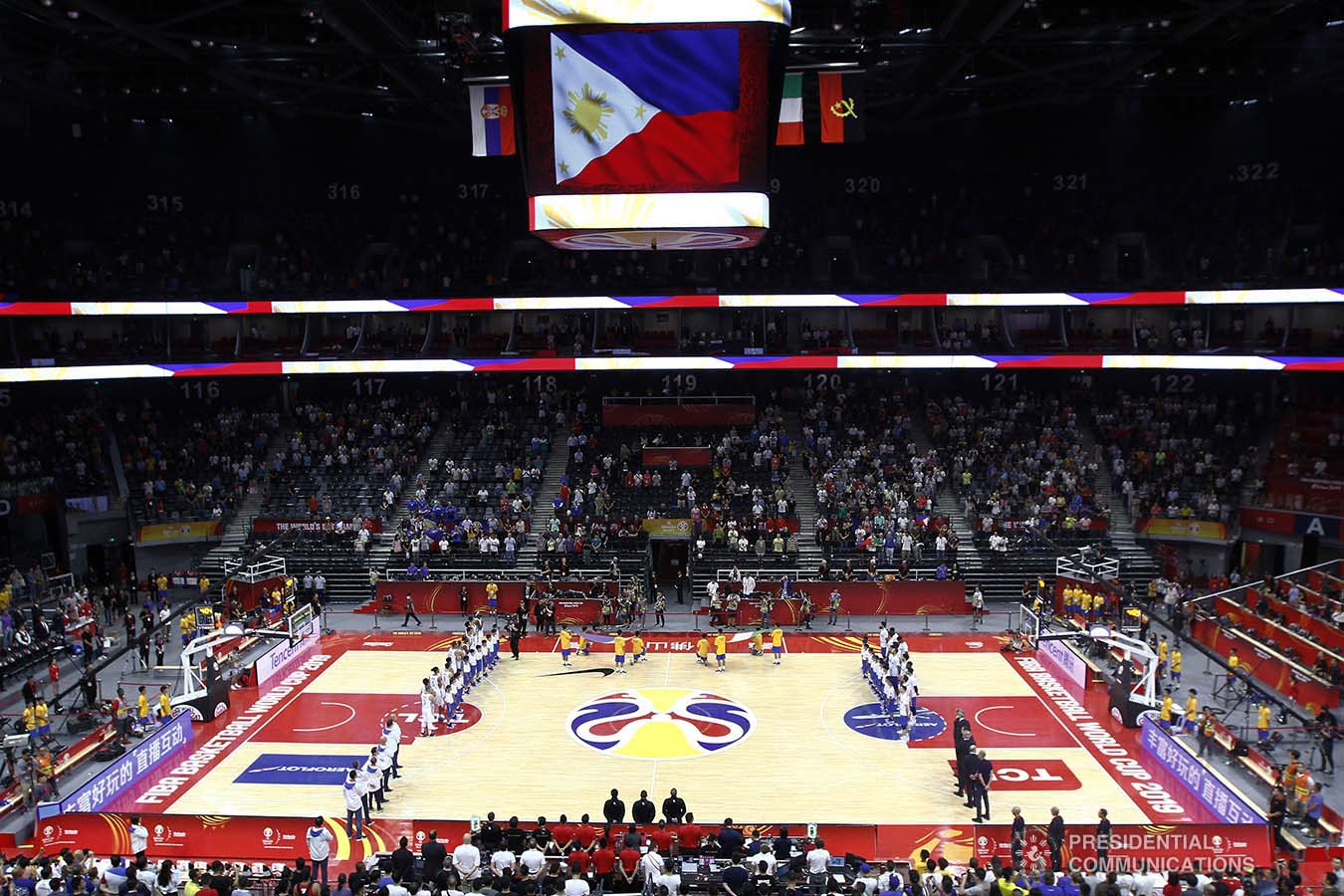 The Philippines men's national basketball team, Gilas Pilipinas, sings the Philippine National Anthem during the team's first game against Italy at the FIBA Basketball World Cup 2019 in Guangdong on August 31, 2019. President Rodrigo Roa Duterte was among thousands of spectators who showed support for the team at the prestigious international tournament. VALERIE ESCALERA/ PRESIDENTIAL PHOTO